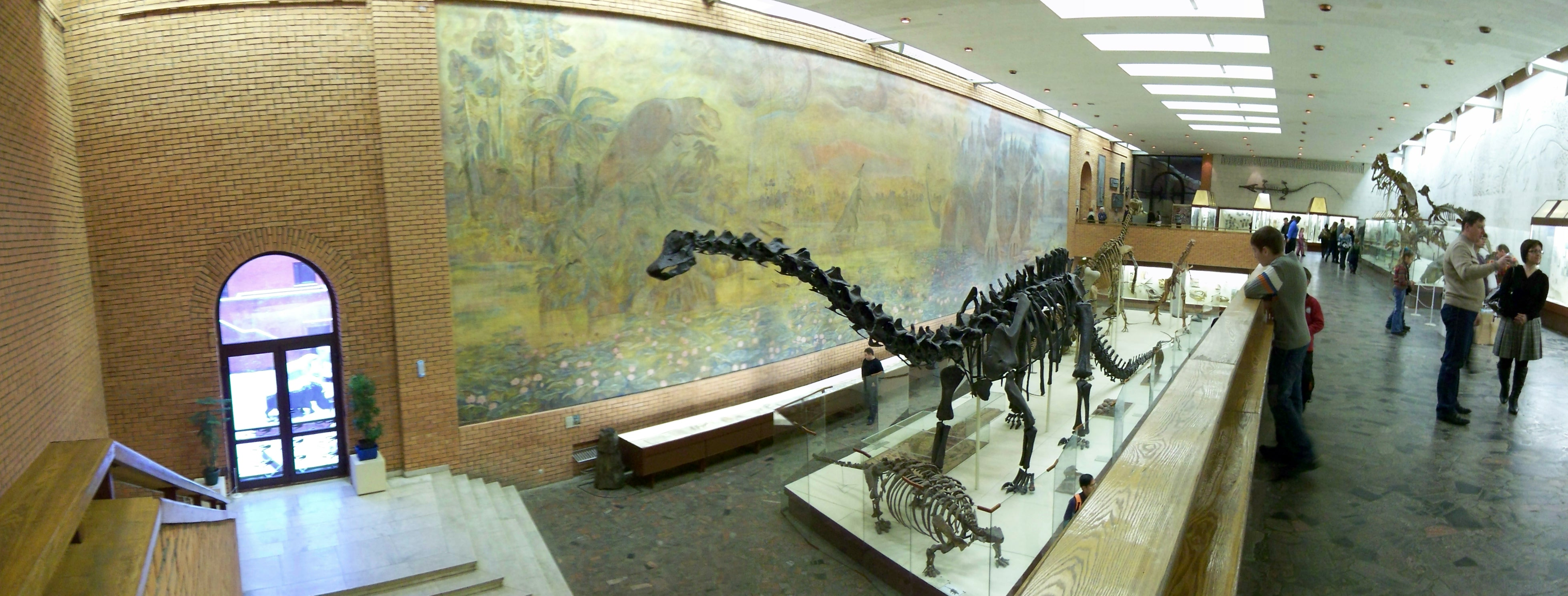 Inside the Moscow Paleontological Museum, also known as the Orlov Museum. Featuring a Diplodocus fossil, a huge 'Paleozoological Mural,' and a lot of other beautiful stuff.